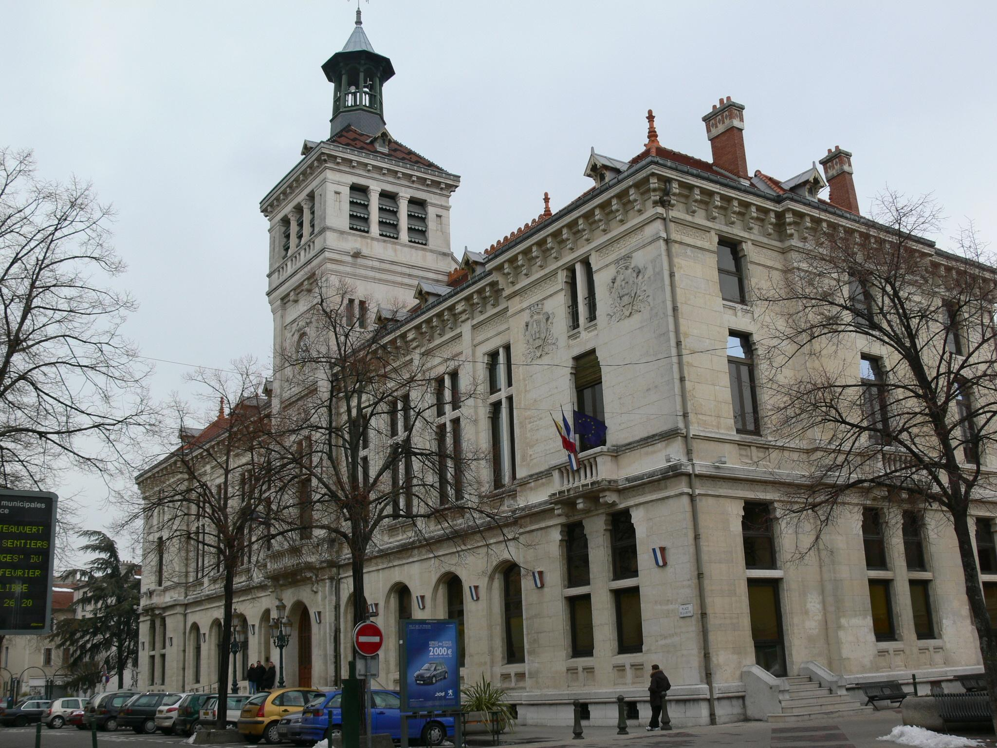 Town hall of Valence (Drôme, France)